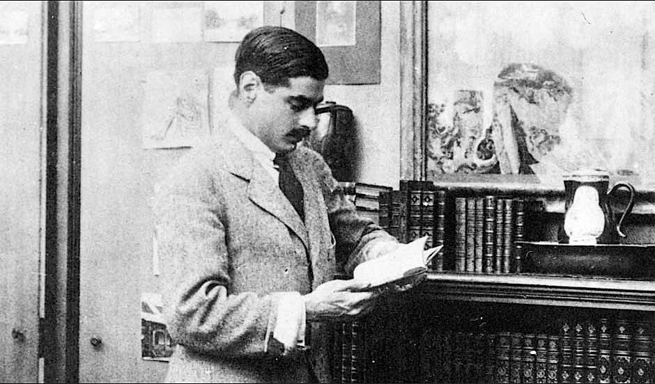 Photo portrait of Arthur Edward "Boy" Capel (1881-1919).